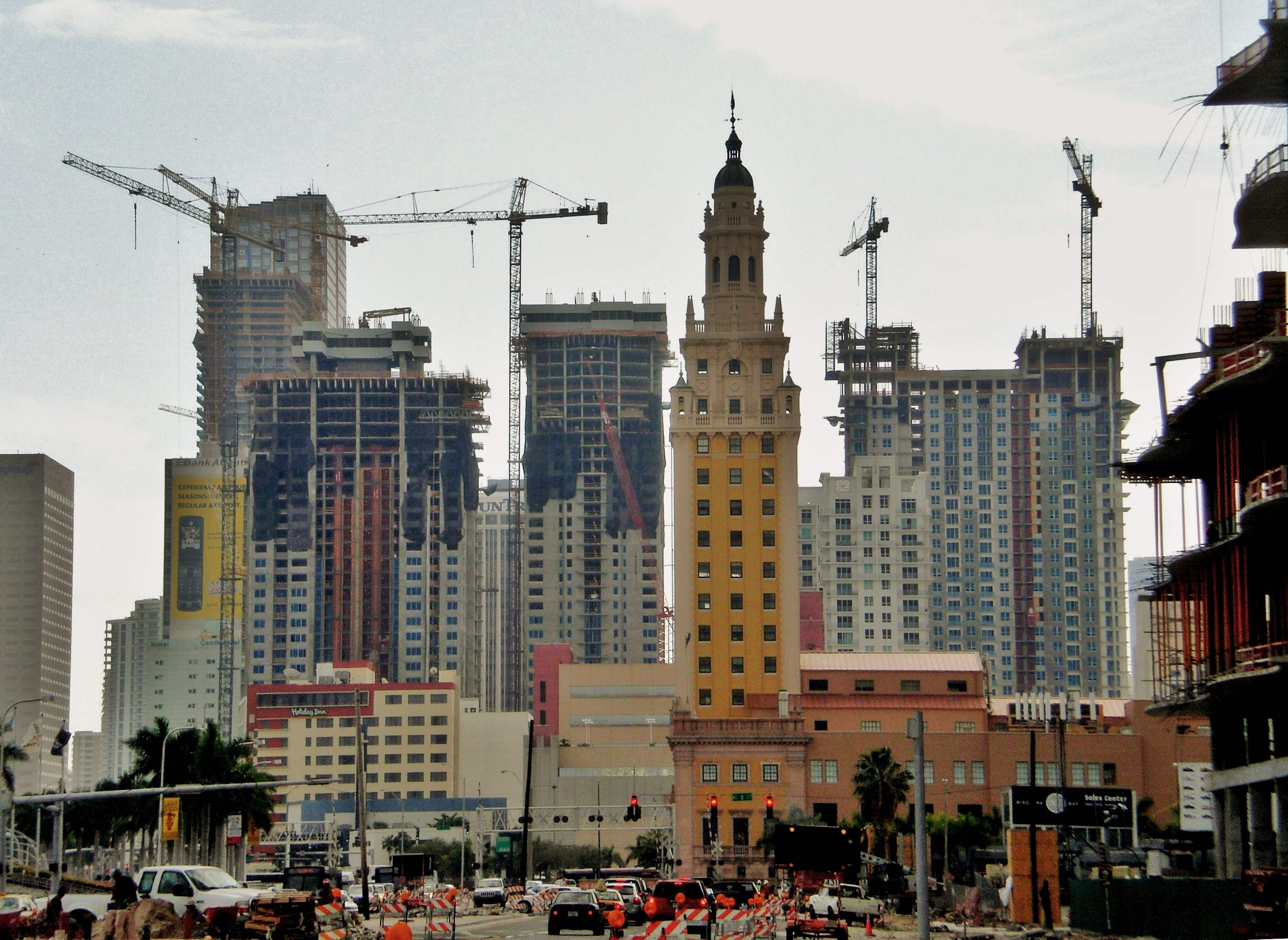 Downtown Miami, Florida, showing Manhattanization.